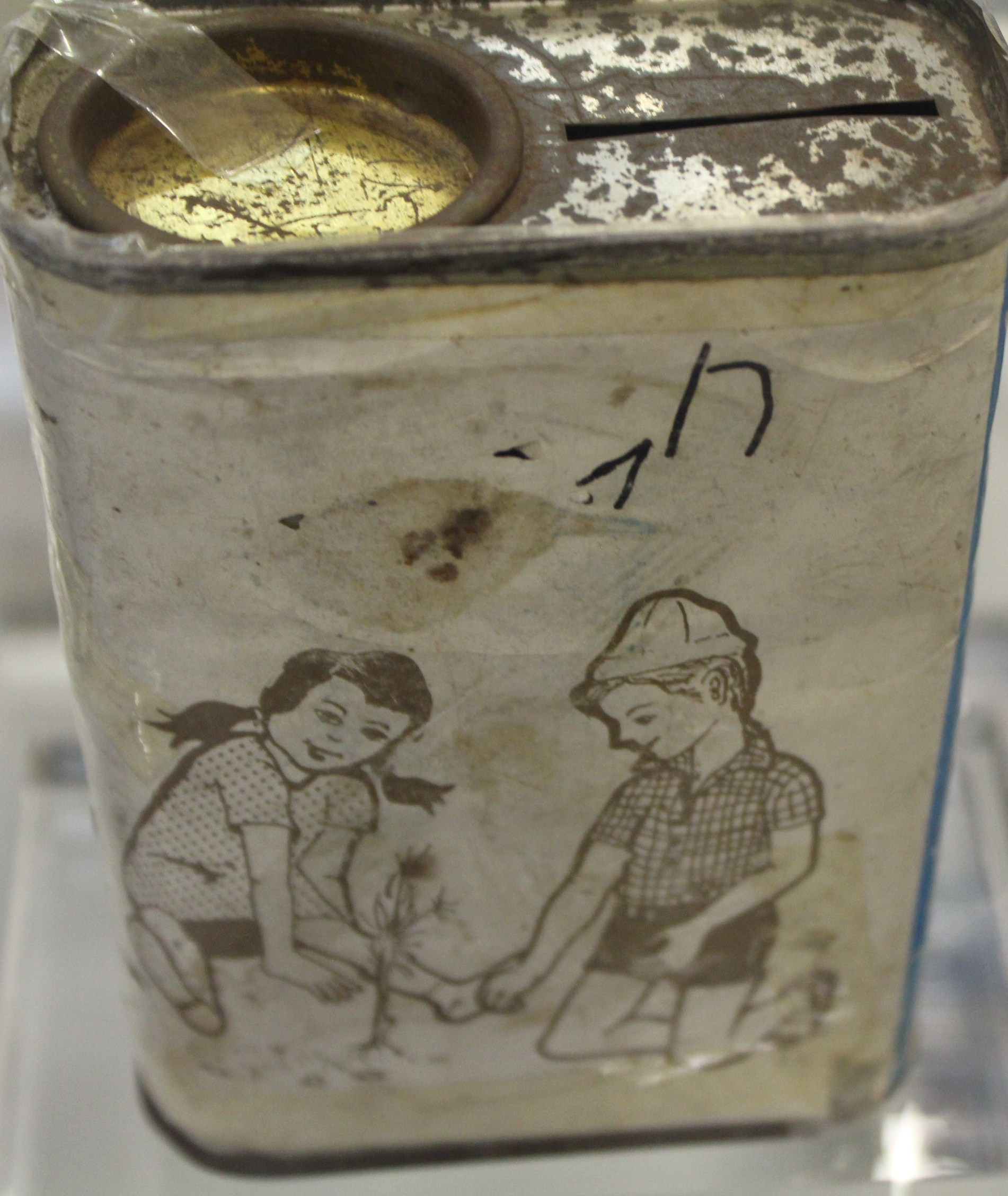 JNF Blue Boxs, Binyan Hamosadot Haleumiyim, Jerusalem, Israel This image was taken as part of the Elef Millim project trip to Heichal Shlomo and The National Institutions House, in Jerusalem which was held on Friday, 15th November 2013. To view all images uploaded as part of the Elef Millim Project